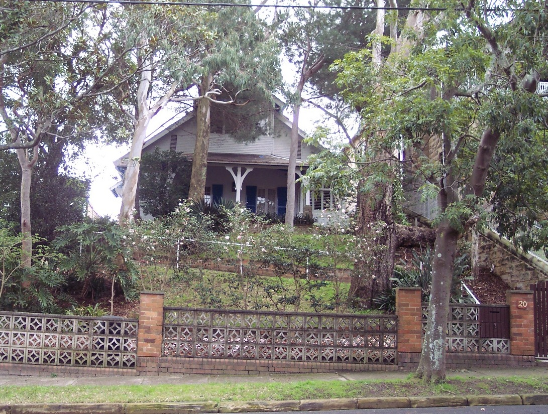 Patrick White's house, Centennial Park, Sydney.